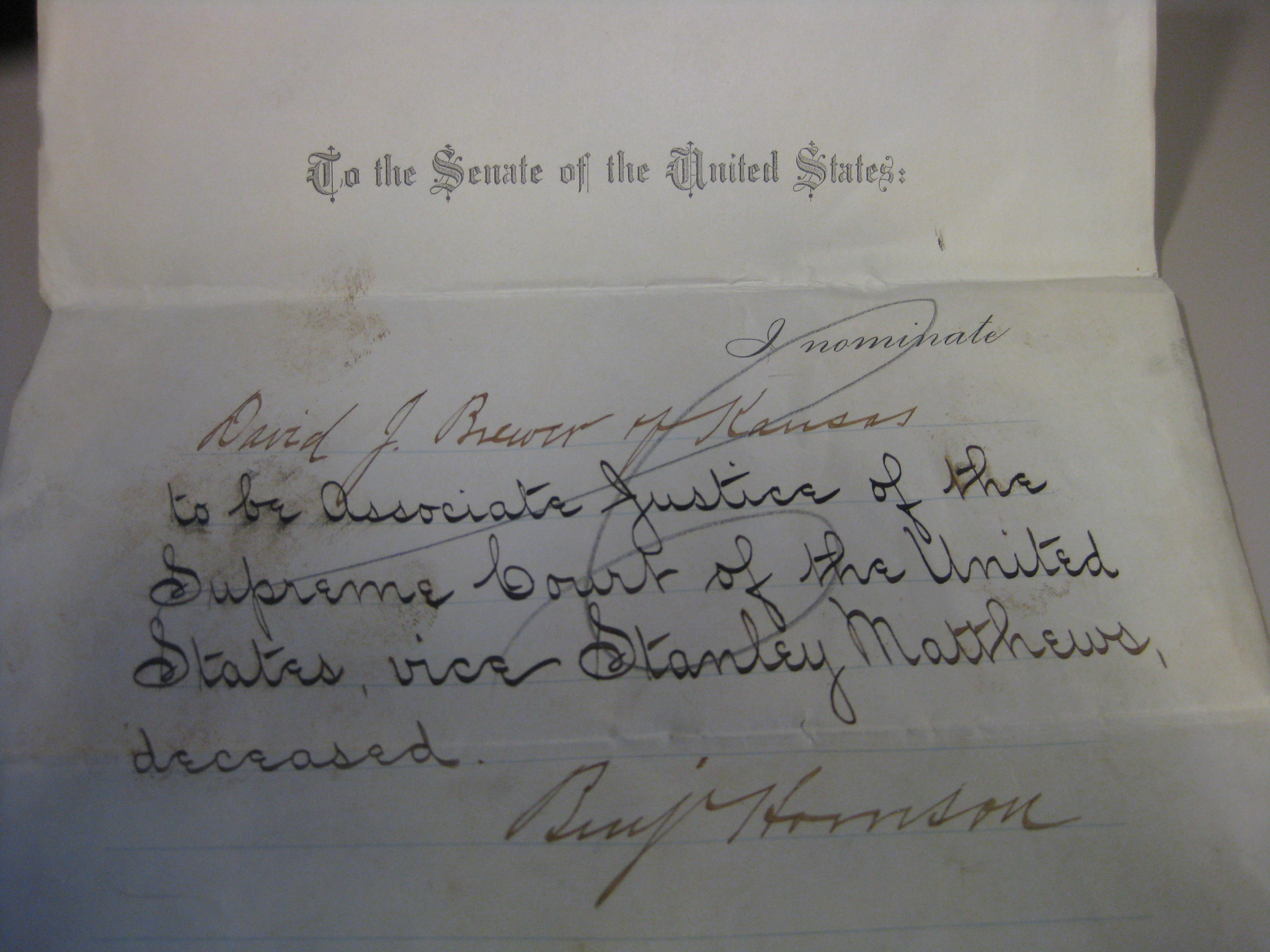 Benjamin Harrison's nomination of David Brewer to serve on the U.S. Supreme Court. Courtesy of the National Archives and Records Administration.